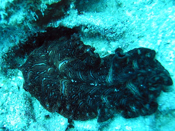 Bedford's Flatworm (Pseudobiceros bedfordi) in Koh Tao, Thailand.